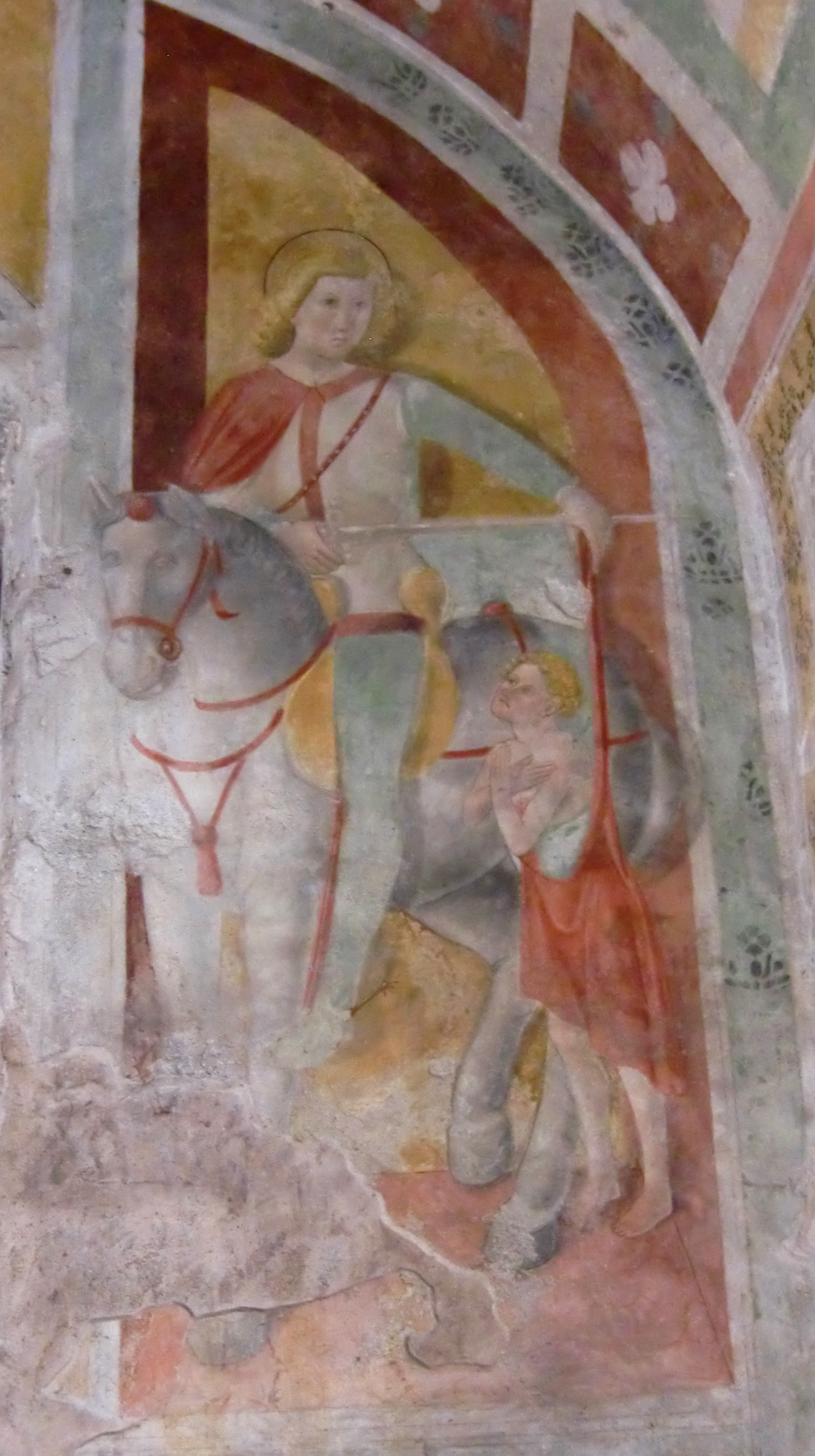 Unknown painter, St. Martin; Avigadro Chapel, fresco, ca. 1460-80, Pieve di San Lorenzo; Settimo Vittone, Turin, Italy